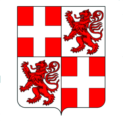 Jean de la Cassiere - Coat of Arms